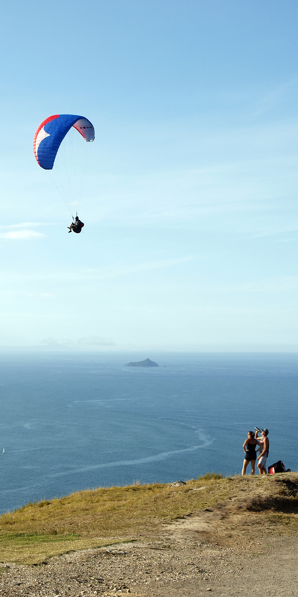 Paraglider at Mauao, Tauranga, New Zealand.